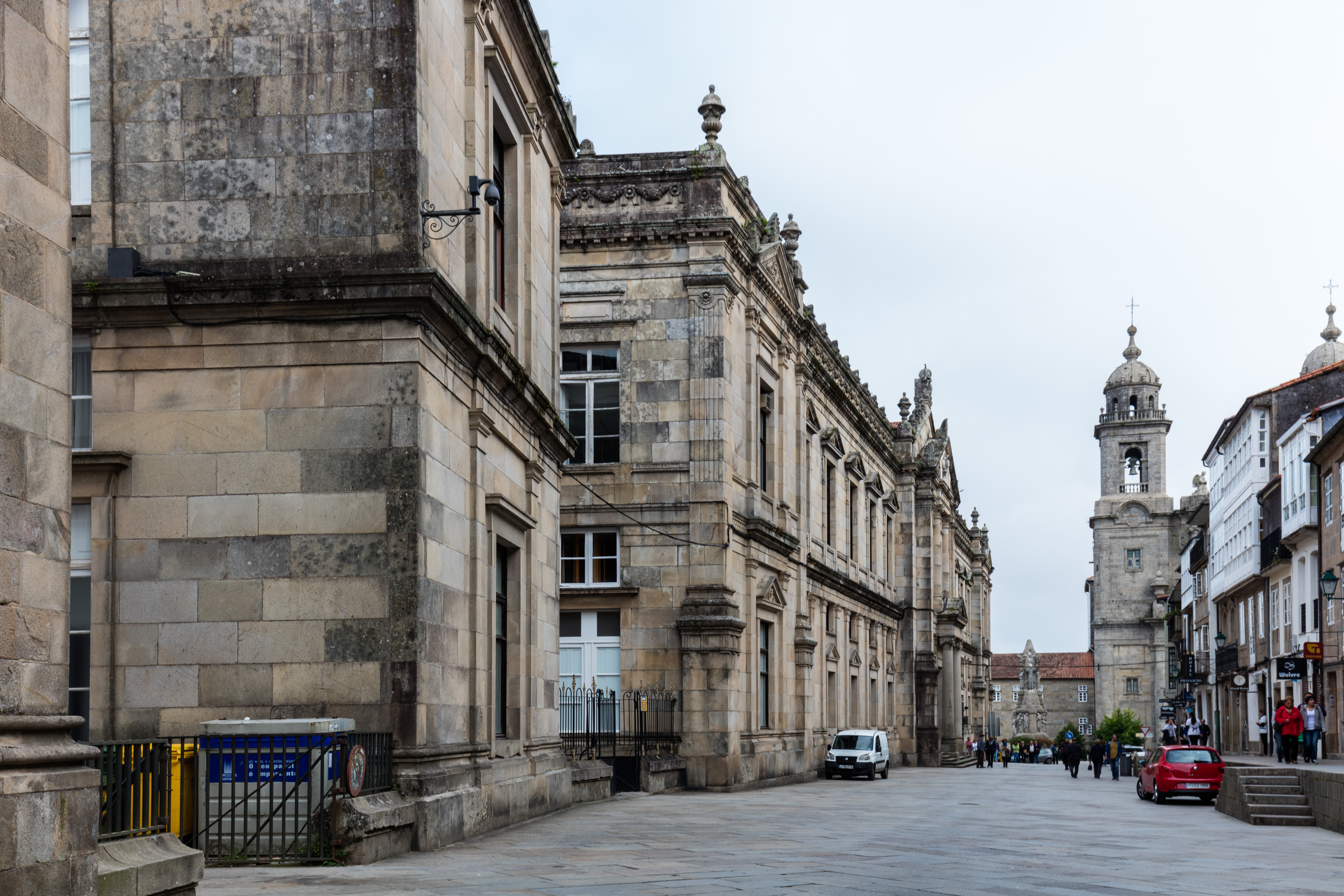 St Franciscus street, Santiago de Compostela, Spain